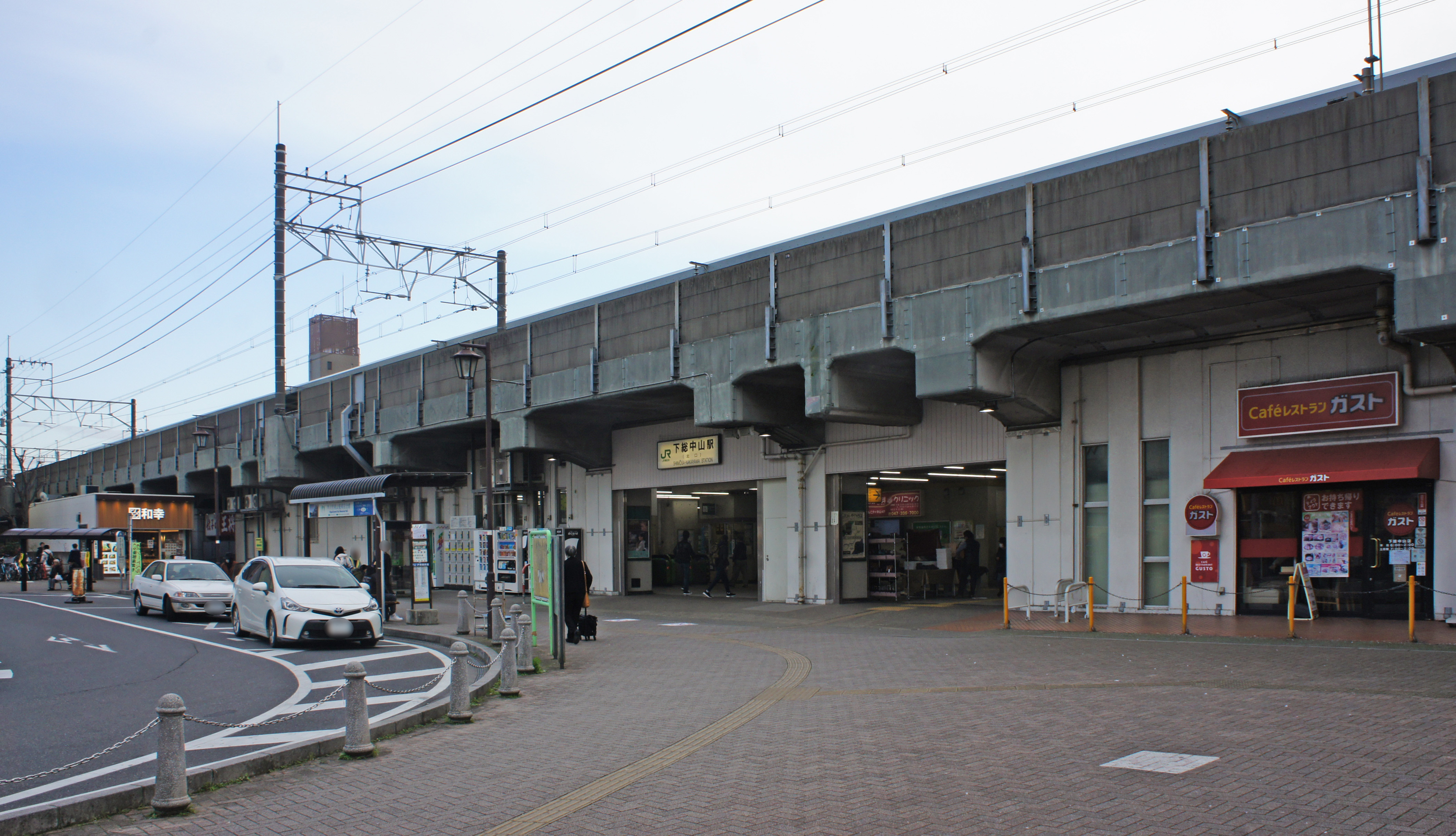 North Exit of JR Sobu-Main-Line Shimosa-Nakayama Station